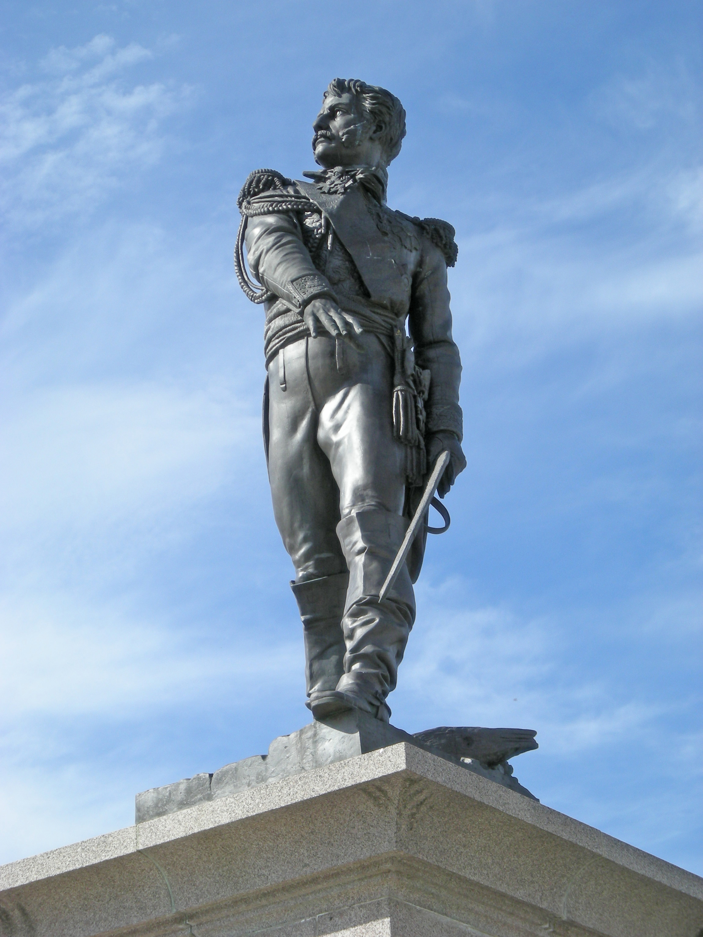 Jean Rapp (27 April 1771 – 8 November 1821). French Army general during the French Revolutionary Wars and the Napoleonic Wars. Colmar, Alsace, France.